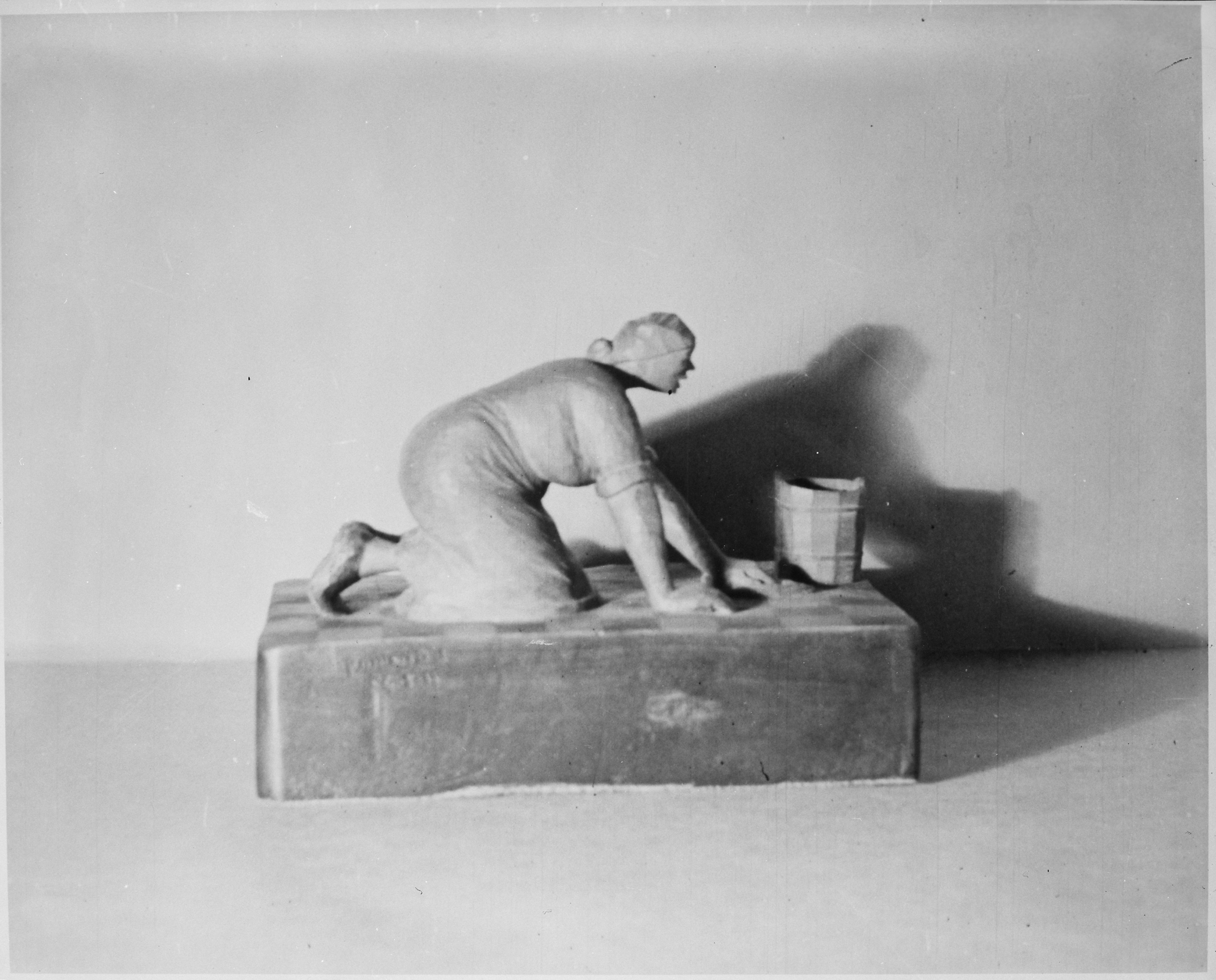 General notes: Sculpture by Leslie Garland Bolling.